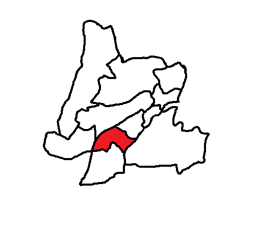 Maps based on images by Earl Warren, from the 2007 elections